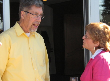 Many of her colleagues attended Advances in Applied Ecology: A Celebration of Judith Myers’ Career on Saturday, 15 September 2007 at the Coach House, Green College, University of British Columbia. Here Charles (Charley) Krebs (yellow shirt) chats with Dawn Bazely (pink jacket). Two other unidentified guests also chat in the sunshine.